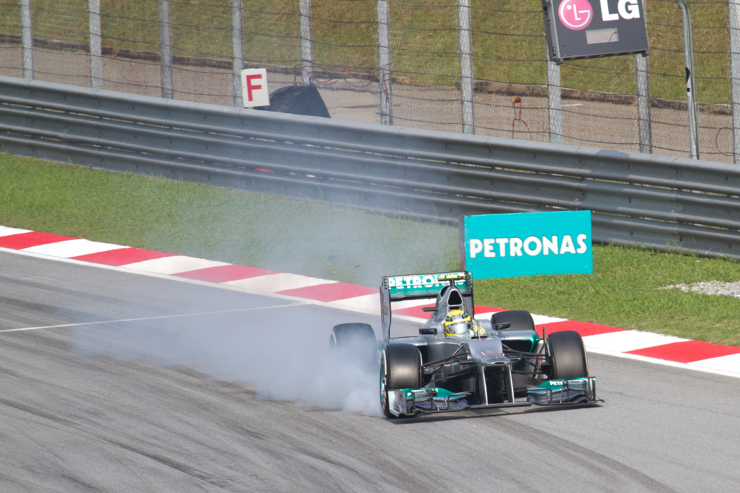 Formula One 2012 Rd.2 Malaysian GP: Nico Rosberg (Mercedes) during the qualify session on Saturday.